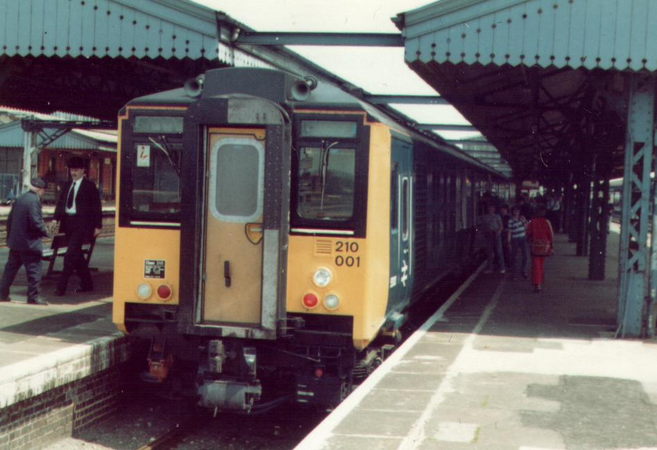 British Rail Class 210 diesel-electric multiple unit at Reading station on 30 May 1982 for the type's first passenger service